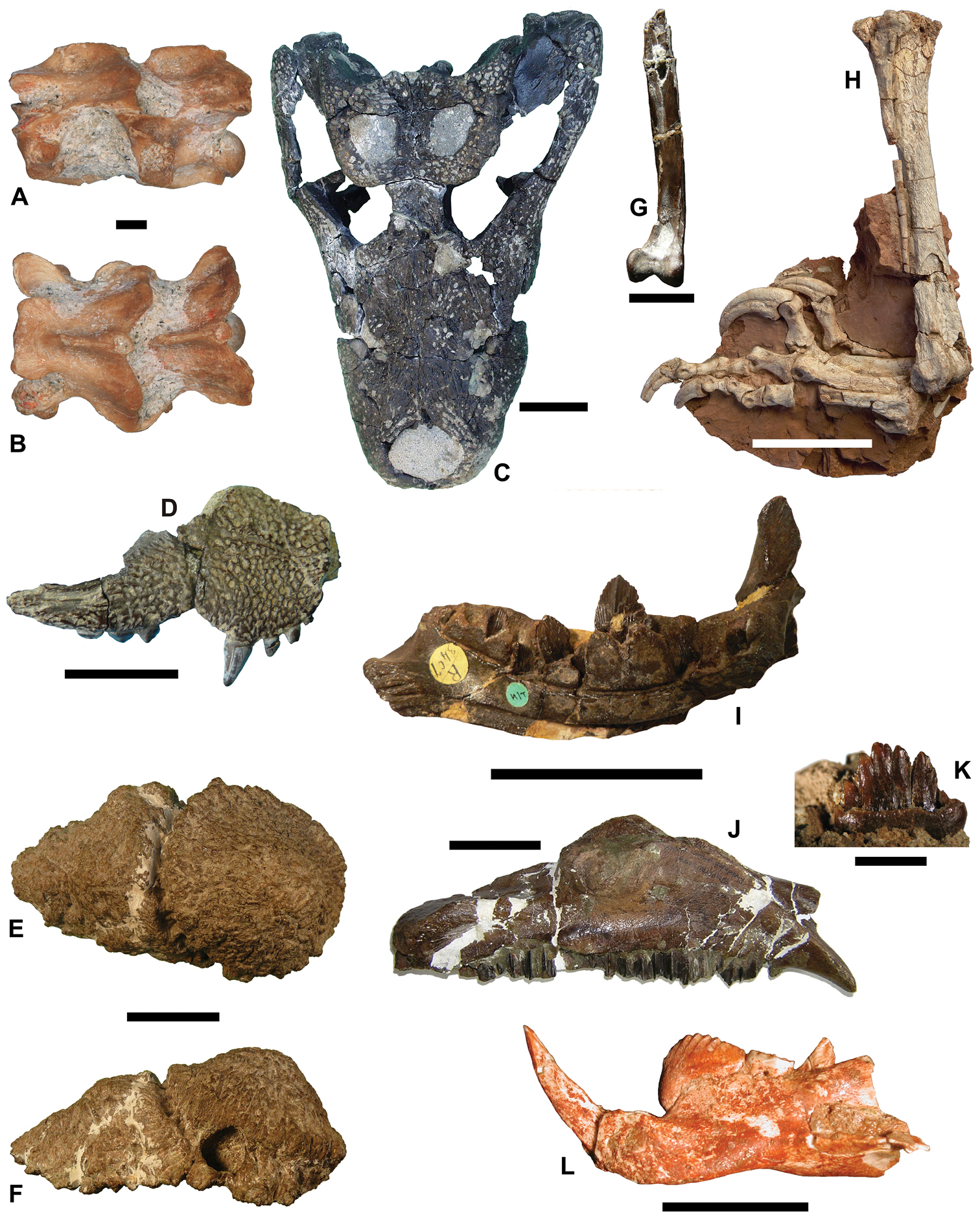 Representative taxa from the latest Campanian–Maastrichtian faunas from Transylvania, western Romania. A–B Nidophis insularis (Serpentes, Madtsoiidae), articulated vertebrae (LPB (FGGUB) v.547/2) in left lateral (A) and dorsal (B) views (Densuş-Ciula Formation, Tuştea, Haţeg Basin; photo by Ştefan Vasile) C Allodaposuchus precedens (Eusuchia, ?Hylaeochampsidae), skull (PSMUBB V 438) in dorsal view (Sebeş = Şard Formation, Oarda de Jos, southwestern Transylvanian Basin; photo by Vlad Codrea/Massimo Delfino) D Theriosuchus sympiestodon (Mesoeucrocodylia, Atoposauridae), right maxilla (MCDRD 793) in lateral view (Sînpetru Formation, Sînpetru, Haţeg Basin) E–F Indeterminate titanosaur (?Magyarosaurus dacus) (Sauropoda, Titanosauria), isolated osteoderm (LPB (FGGUB) R.1410) in dorsal (E) and lateral (F) views (Sînpetru Formation, Sînpetru, Haţeg Basin) G Indeterminate ornithuran bird (Aves, Ornithurae), incomplete left tibiotarsus (LPB (FGGUB) R.1902) in anterior view (Densuş-Ciula Formation, Vălioara, Haţeg Basin) H Balaur bondoc (Theropoda, Dromaeosauridae), articulated left distal hindlimb (EME PV.313) in lateral view (Sebeş = Şard Formation, Sebeş-Glod, southewestern Transylvanian Basin; photo by Mick Ellison) I Zalmoxes robustus (Ornithopoda, Rhabdodontidae), right dentary (NHMUK R.3407) in medial view (Sînpetru Formation, Sînpetru, Haţeg Basin) J Telmatosaurus transsylvanicus (Hadrosauria), right maxilla (MFGI unnumbered) in lateral view (Sînpetru Formation, Sînpetru, Haţeg Basin) K Indeterminate nodosaurid – Struthiosaurus transylvanicus or new taxon – (Ankylosauria, Nodosauridae), isolated tooth (LPB (FGGUB) R.2182) in medial view (Sînpetru Formation, Sînpetru, Haţeg Basin) L Barbatodon transylvanicus (Multituberculata, Kogaionidae), right maxilla (LPB (FGGUB) M.1635) in medial view (Sînpetru Formation, Pui, Haţeg Basin). Scale bars equal 1 mm in A, B; 5 mm in K; 1 cm in G, L; 2 cm in D; and 5 cm in C, E, F, H, I, J.